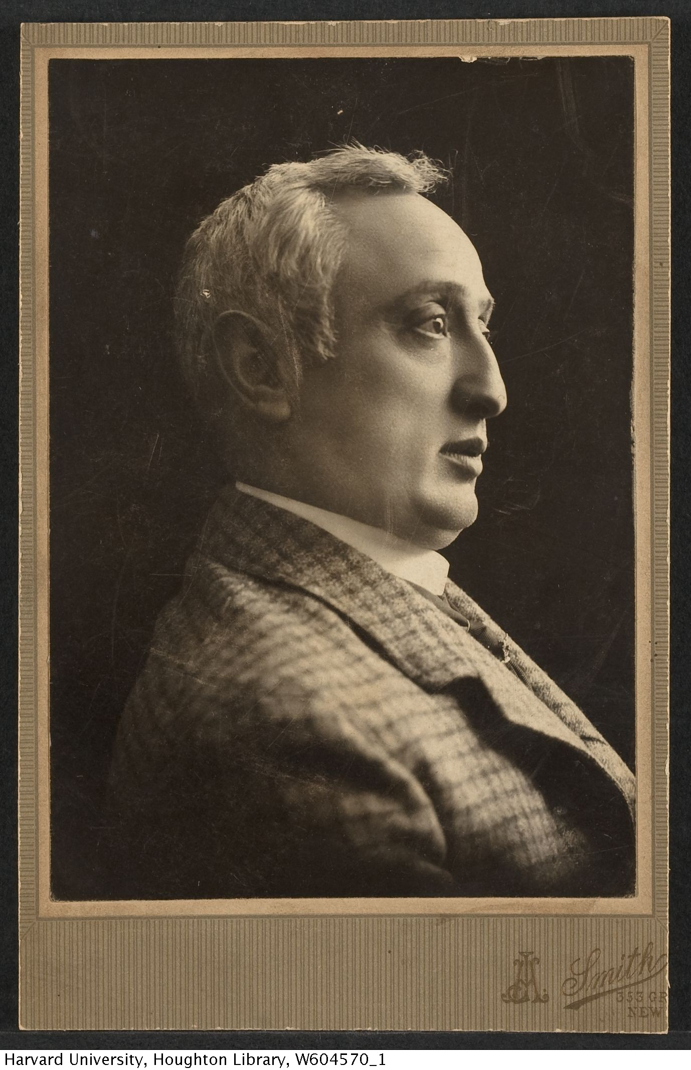 Cabinet card image of Russian-born actor Jacob P. Adler (1855-1926). From a collection dated 1918. TCS 1.128, Harvard Theatre Collection, Harvard University